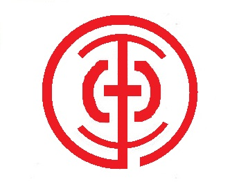 Flag of Tamano Okayama